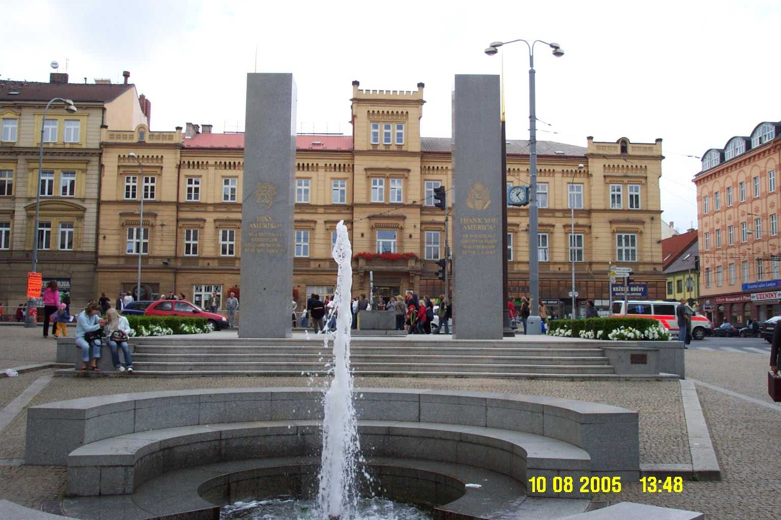 The memorial of liberation the city of Plzeň in Czech republic by American Army in 1945.